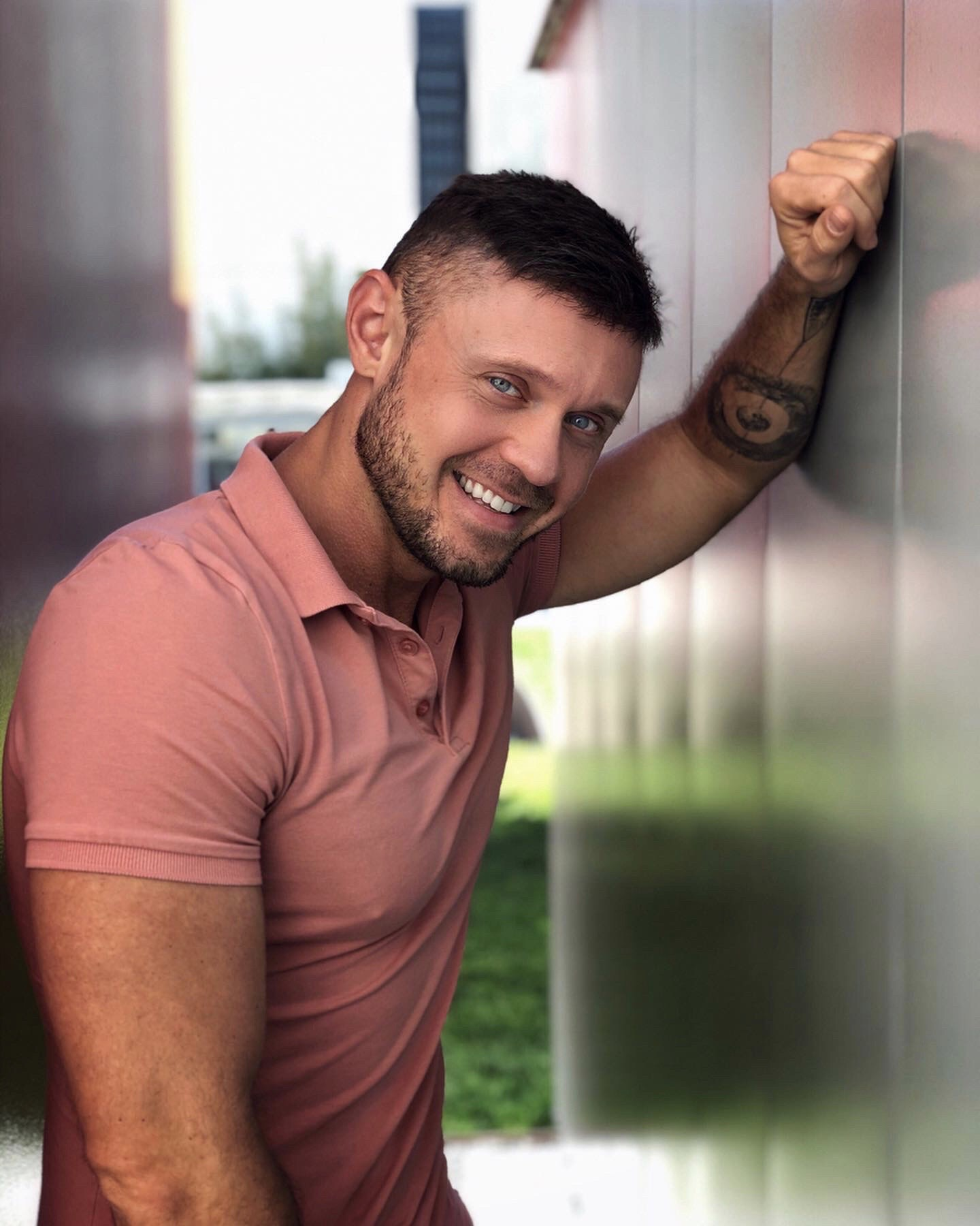 Photo of Ryan Skyy posing in a public space at LACMA museum in Los Angeles, CA.